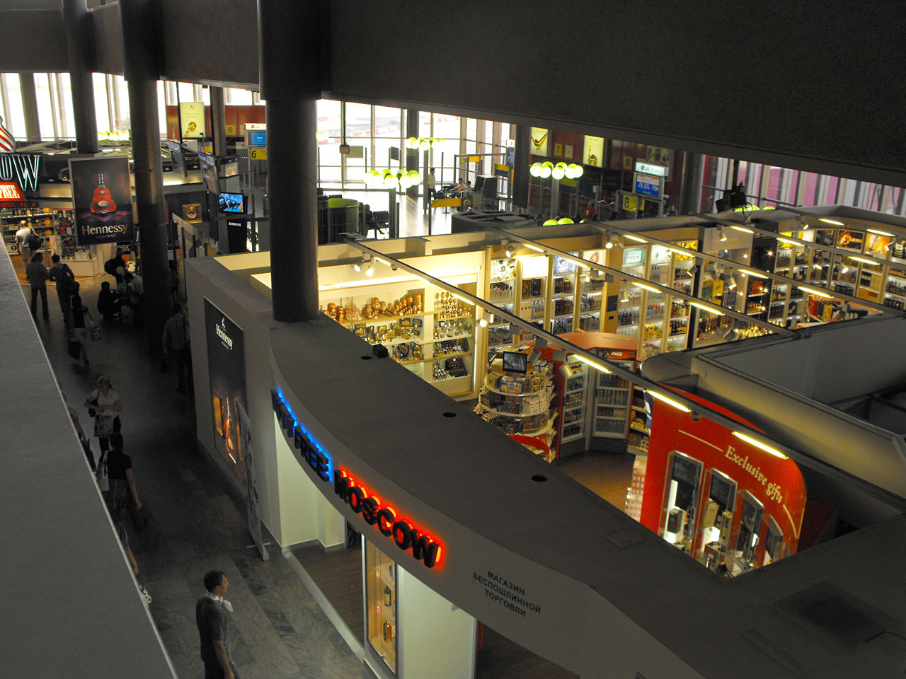 Sheremetyevo-2 Airport departure lobby